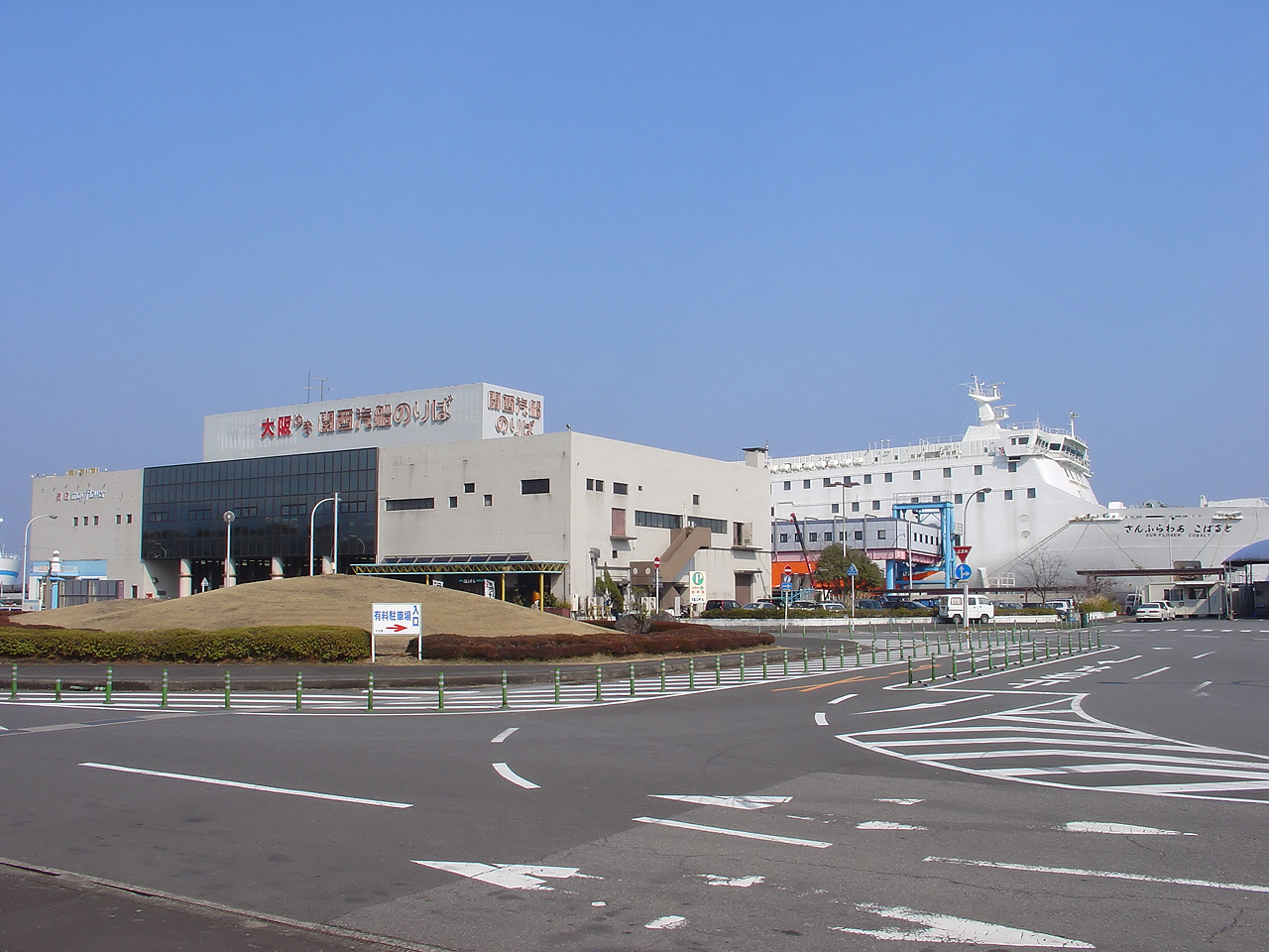 Kansai Kisen Terminal at the Port of Beppu in Beppu City, Oita Prefecture, Japan